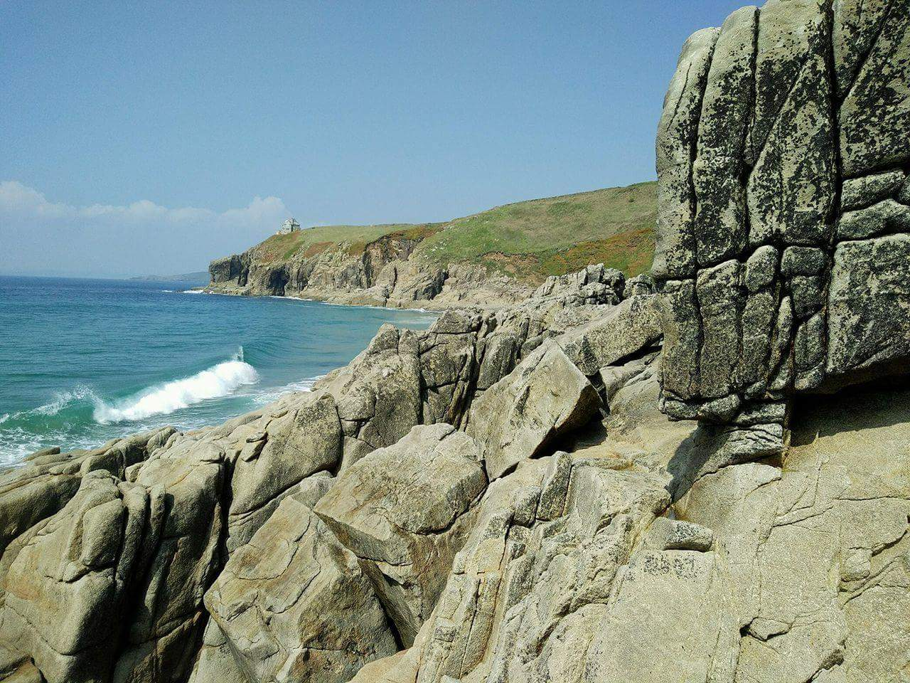 Cornish south coast